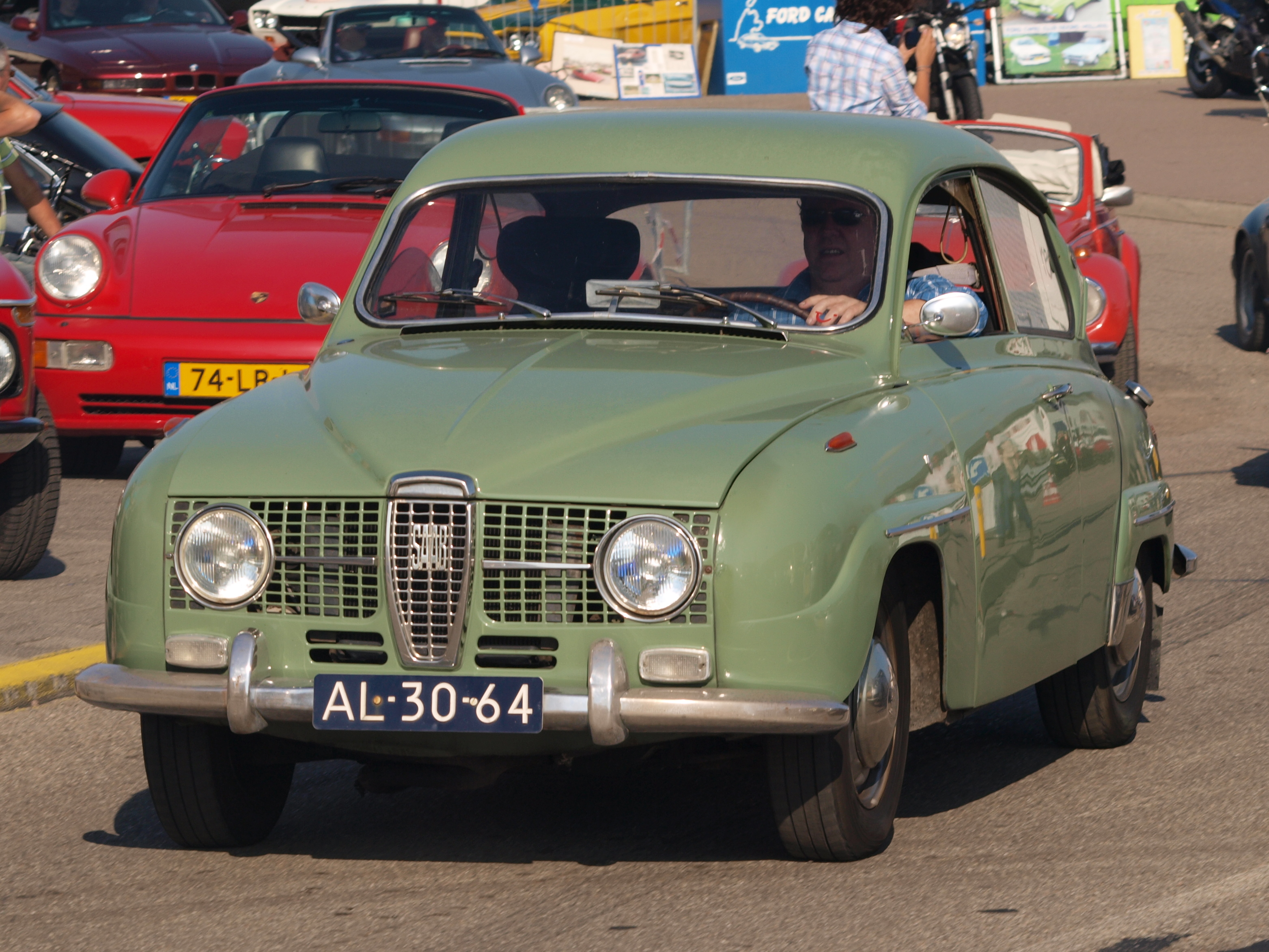 Photographed at the Nationaal Oldtimer Festival Zandvoort 2009, The Netherlands. OLYMPUS DIGITAL CAMERA